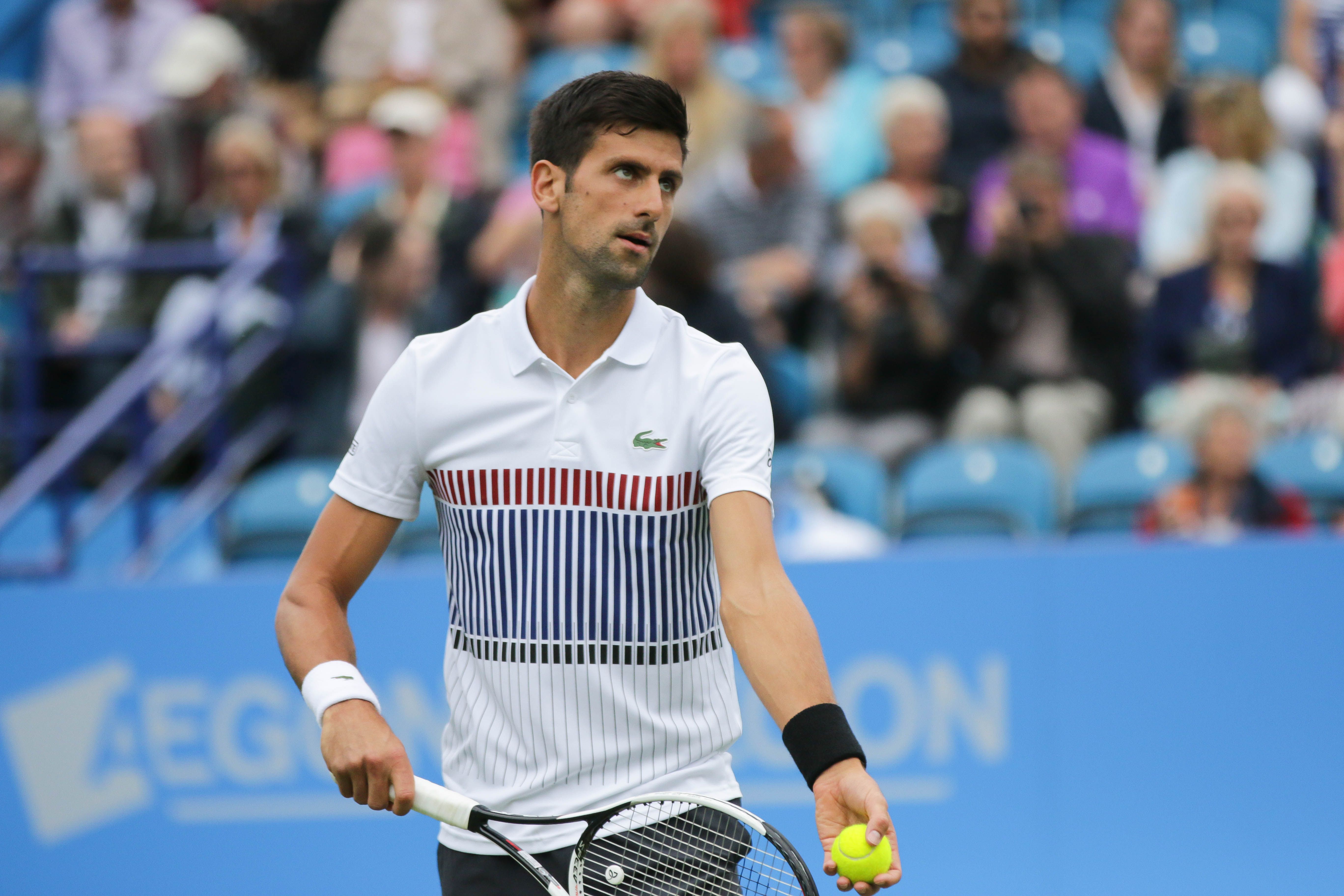 Eastbourne tennis 2017-102.jpg